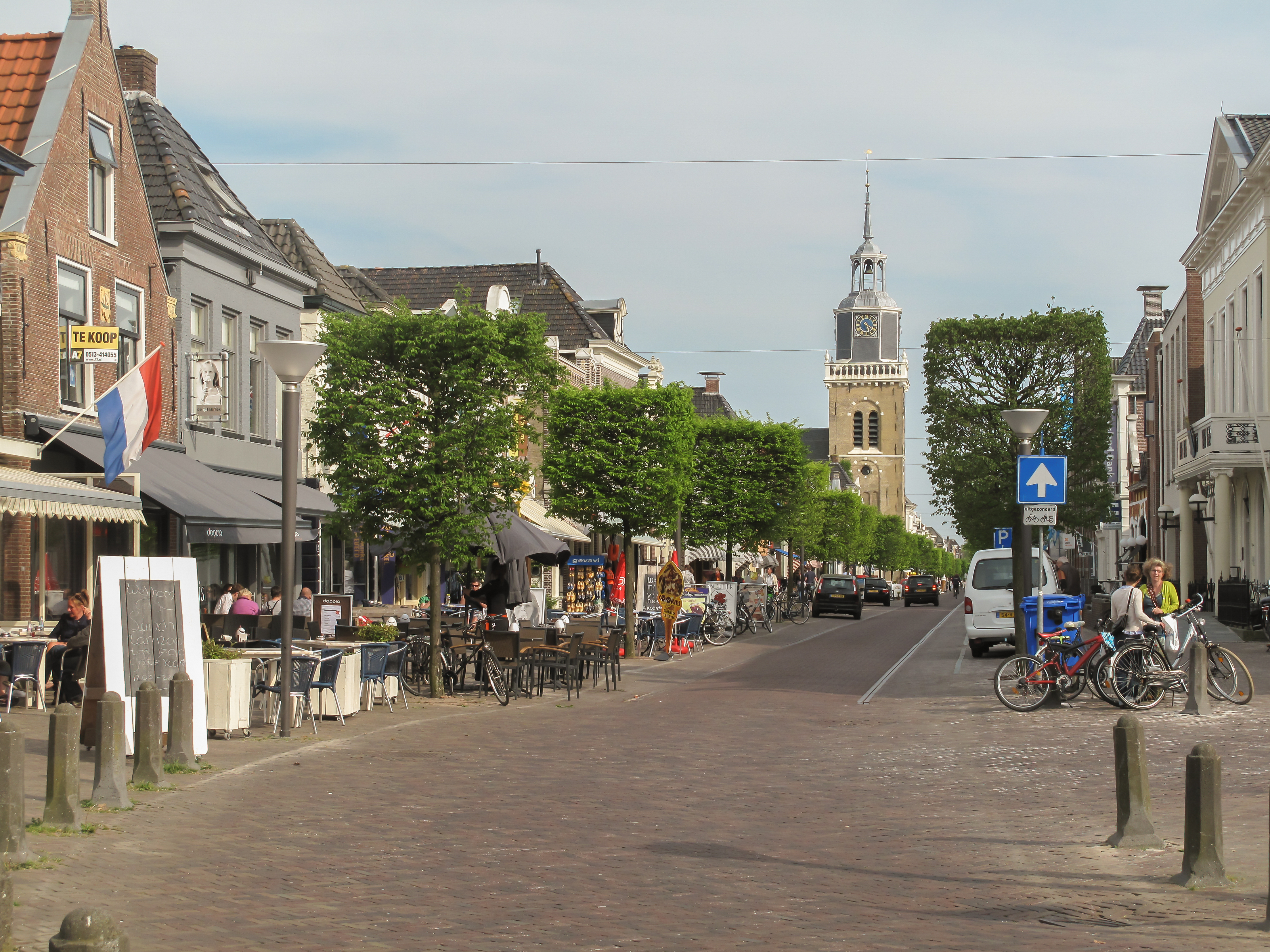 Joure, view to a street with the church